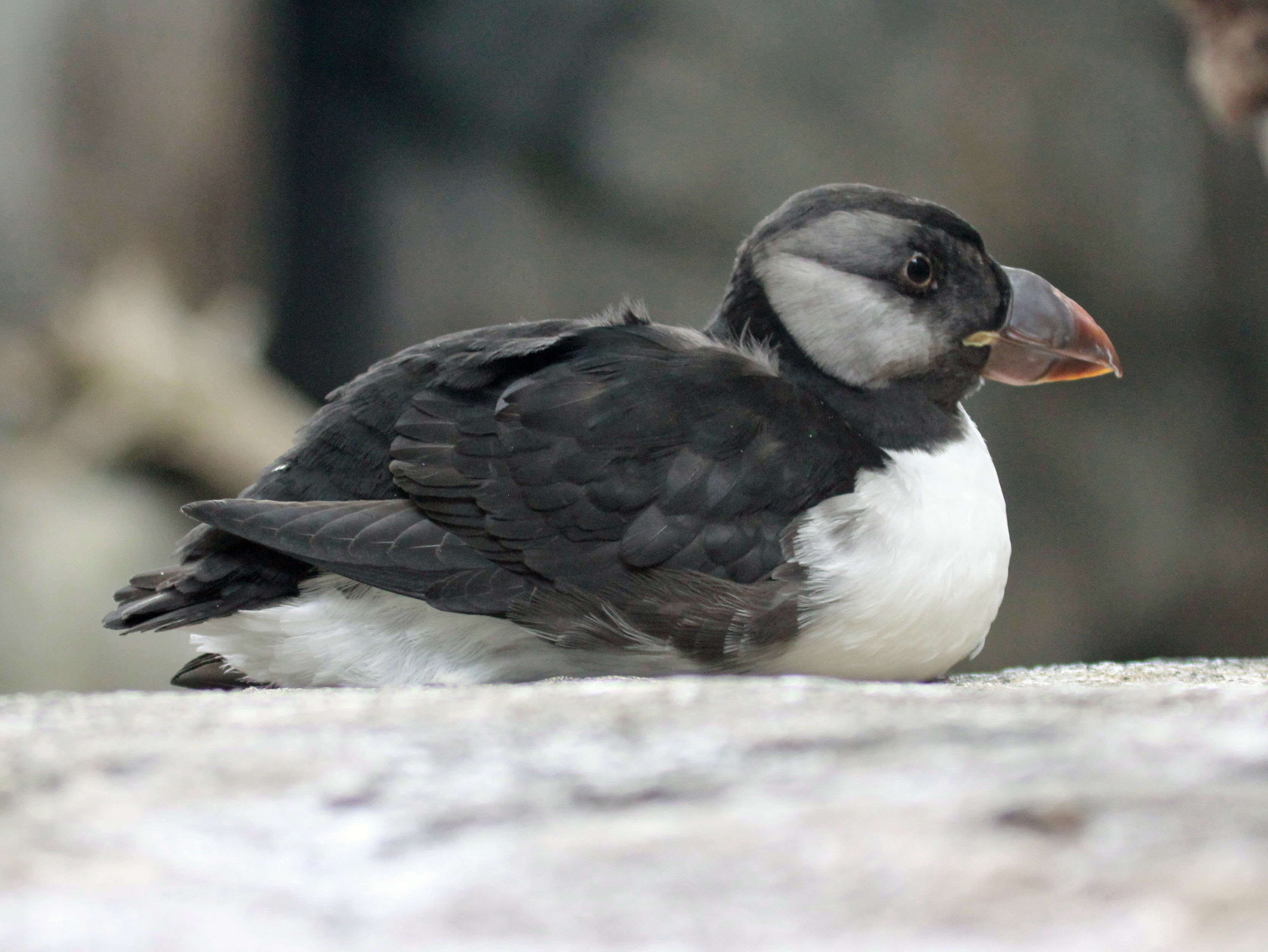 Juvenile Horned Puffin (Fratercula corniculata) - Alaska SeaLife Center in Seward, Alaska